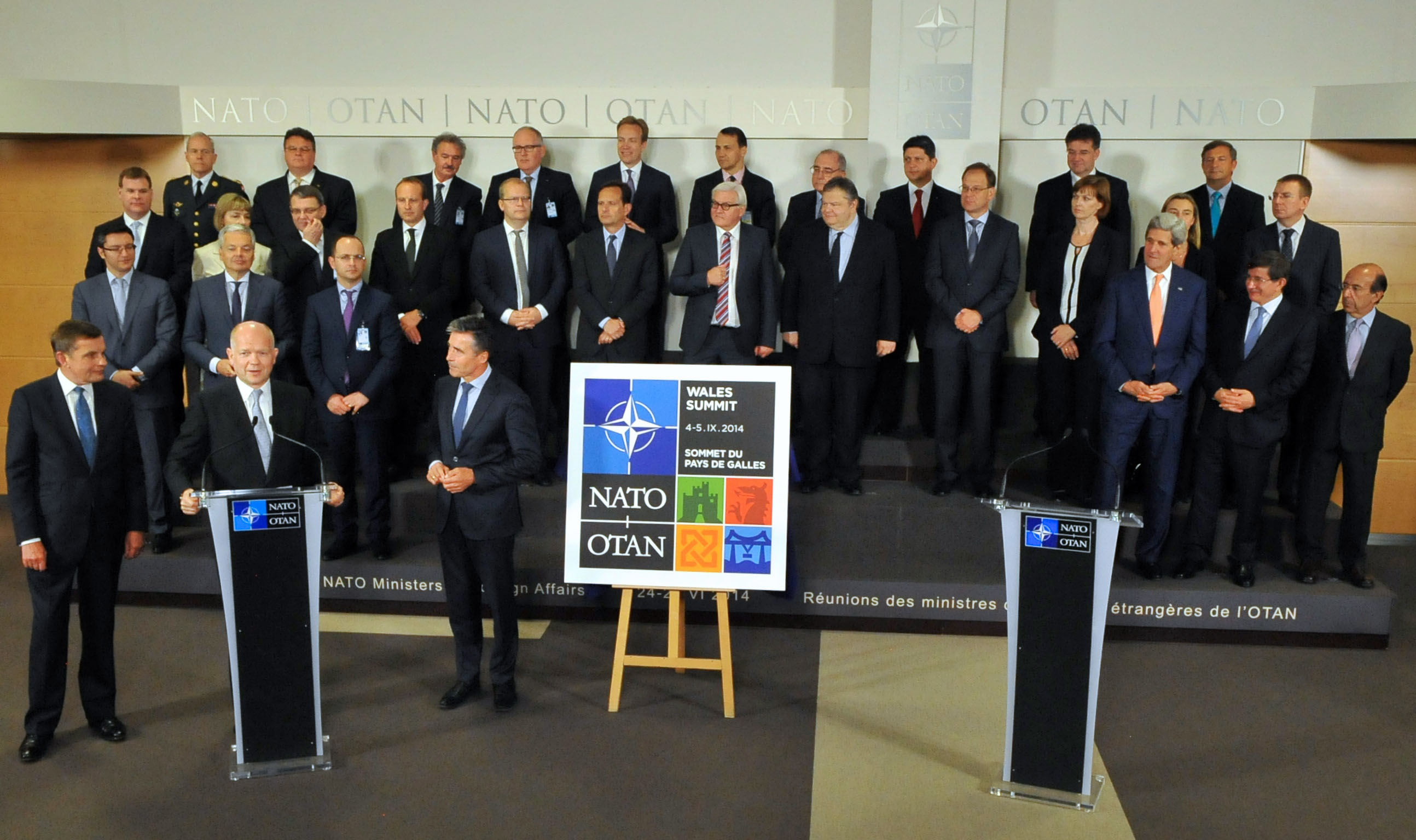 British Foreign Secretary William Hague salutes the logo for the 2014 NATO Summit in Wales this September as he and his colleagues take a break amid a series of ministerial meetings at NATO Headquarters in Brussels, Belgium, on June 25, 2014. [State Department photo/ Public Domain]